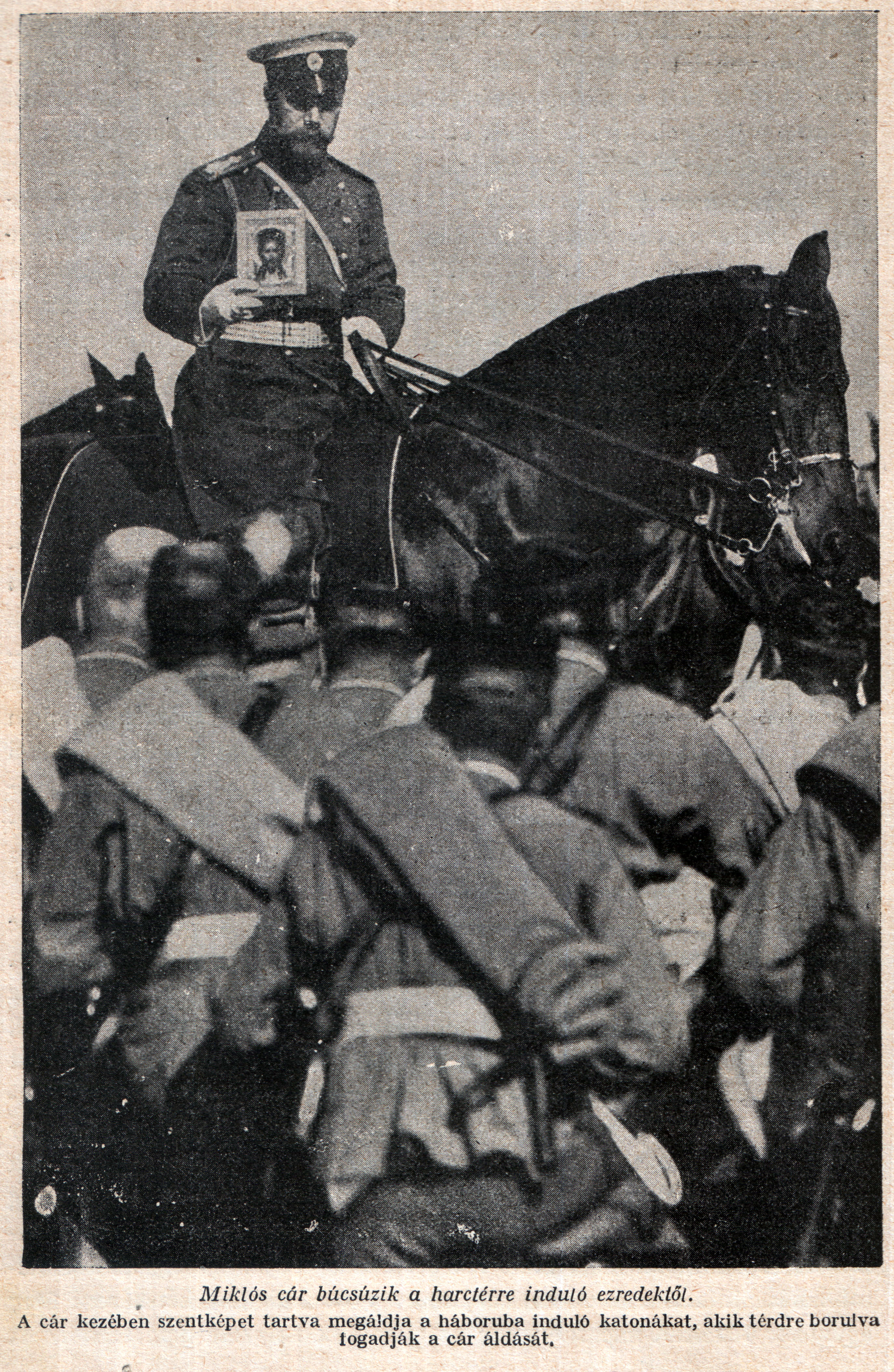 Inscription on photo in hungarian: Tsar Nicholas farewell to departing regiments to the battlefield. The Czar, his hand blesses the soldiers are going to war, who knelt down to receive the blessing of Tsar